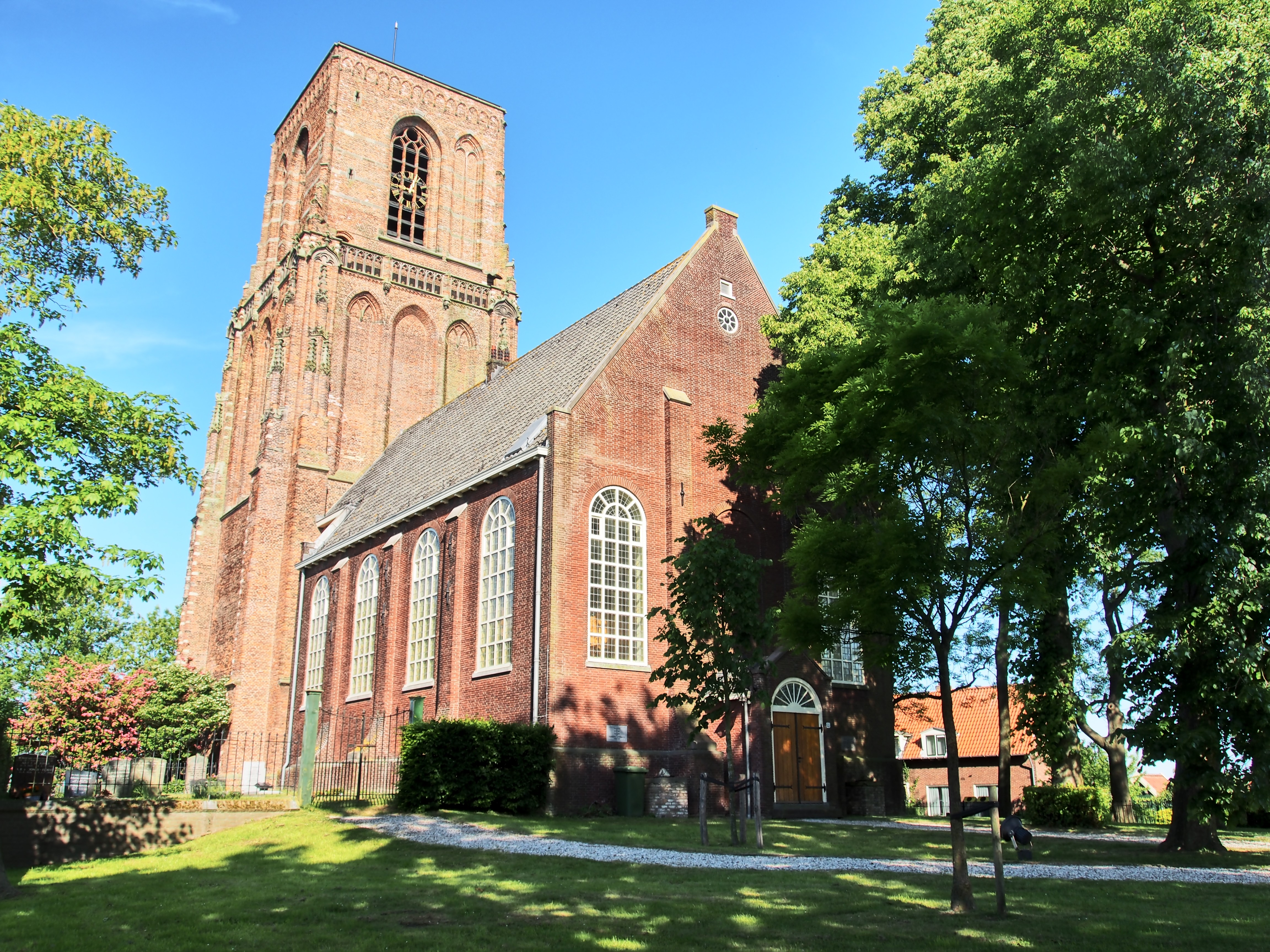 Photographed in Ransdorp, The Netherlands.